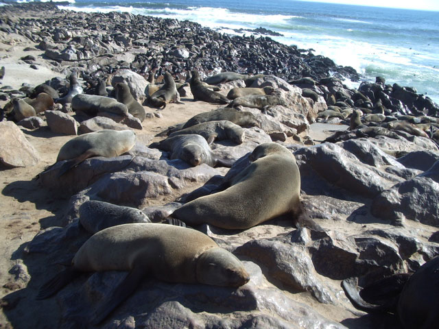 There were SO MANY. It was like this for almost 180 degrees around on a litle penninsula (Cape Cross).Cape Cross Seal Colony